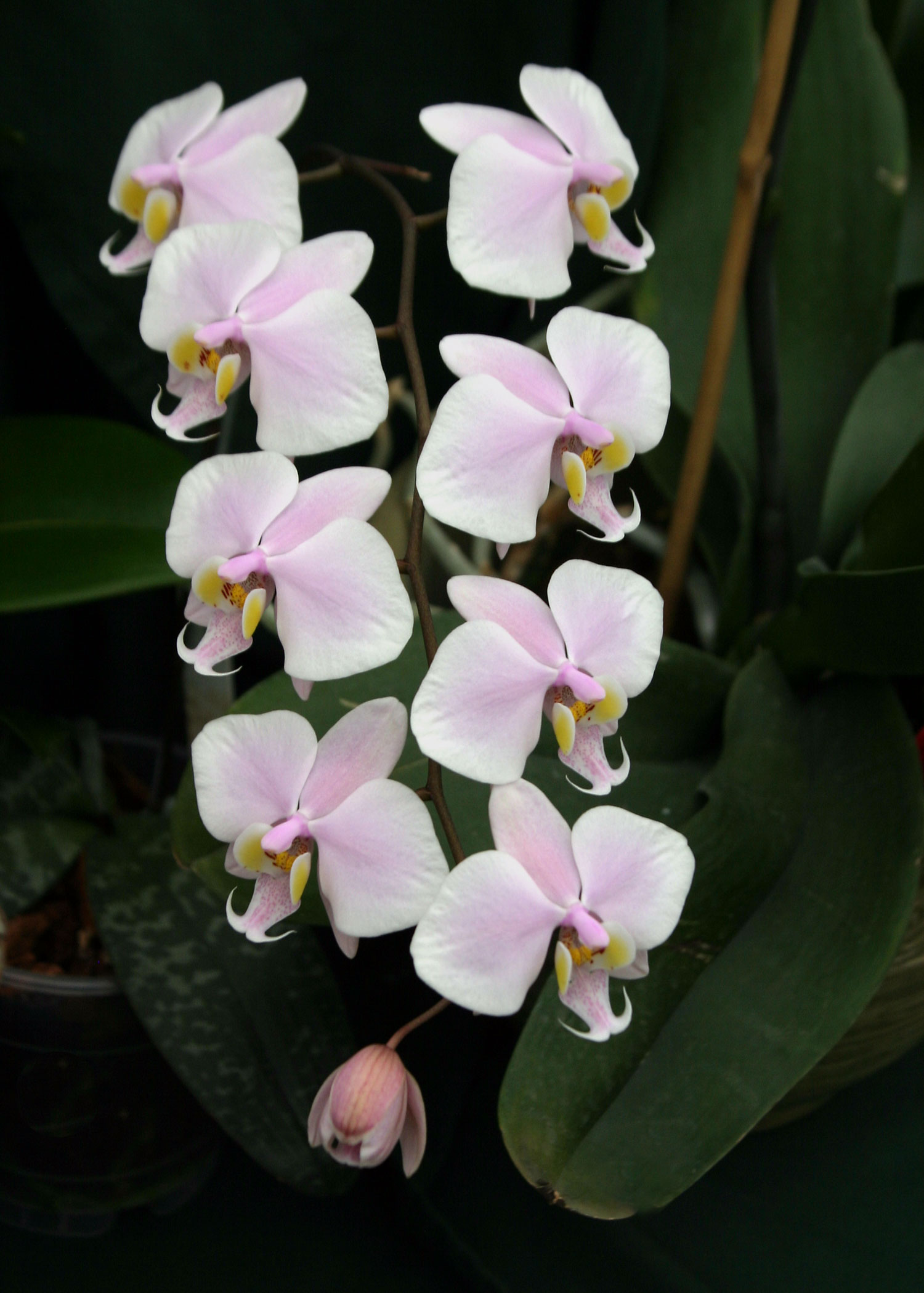 Phalaenopsis schilleriana. Orchid show in Springfield Illinois U.S.A.